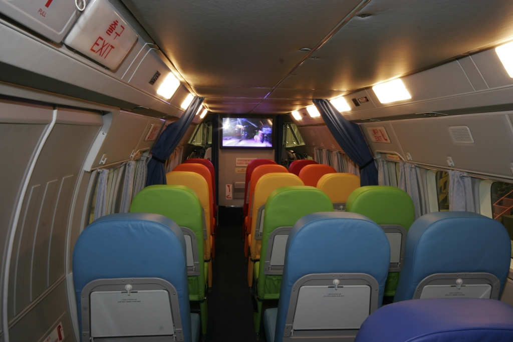 L410 UVP-E20 Interior